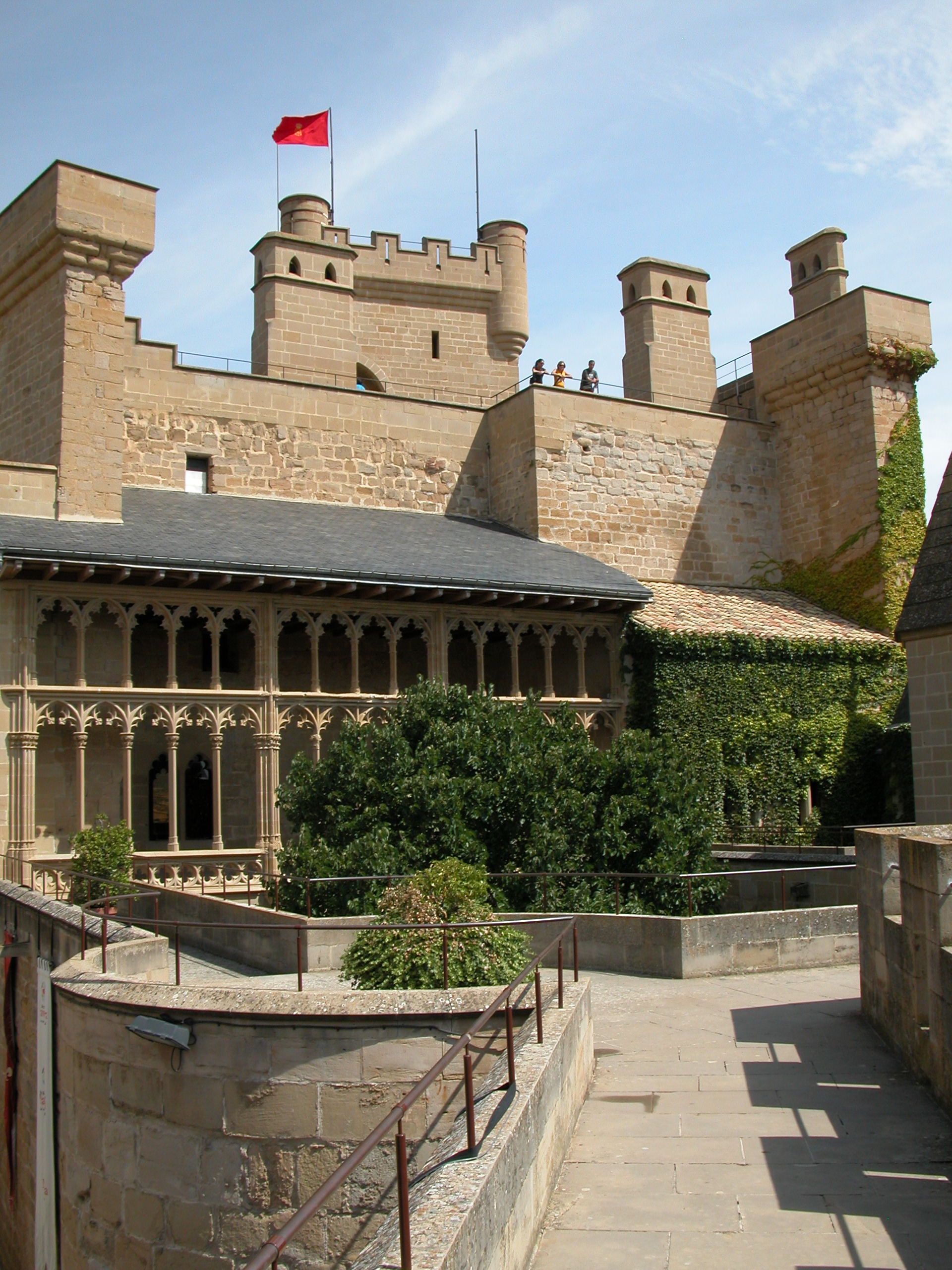 Olite Castle